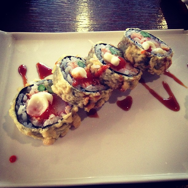 Dynamite roll